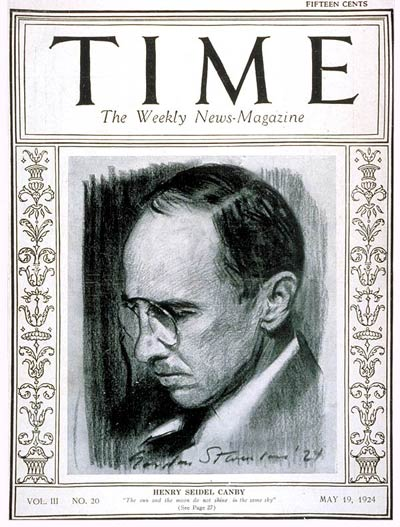 TIME Magazine Cover Featuring Henry Seidel Canby (19 May 1924)